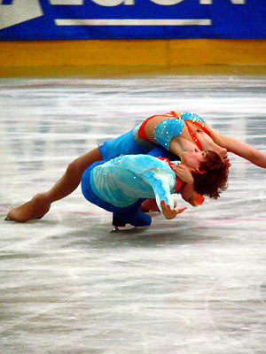 Madison Hubbell and Keiffer Hubbell during their free dance at the 2006 Junior Grand Prix event in The Hague, Netherlands